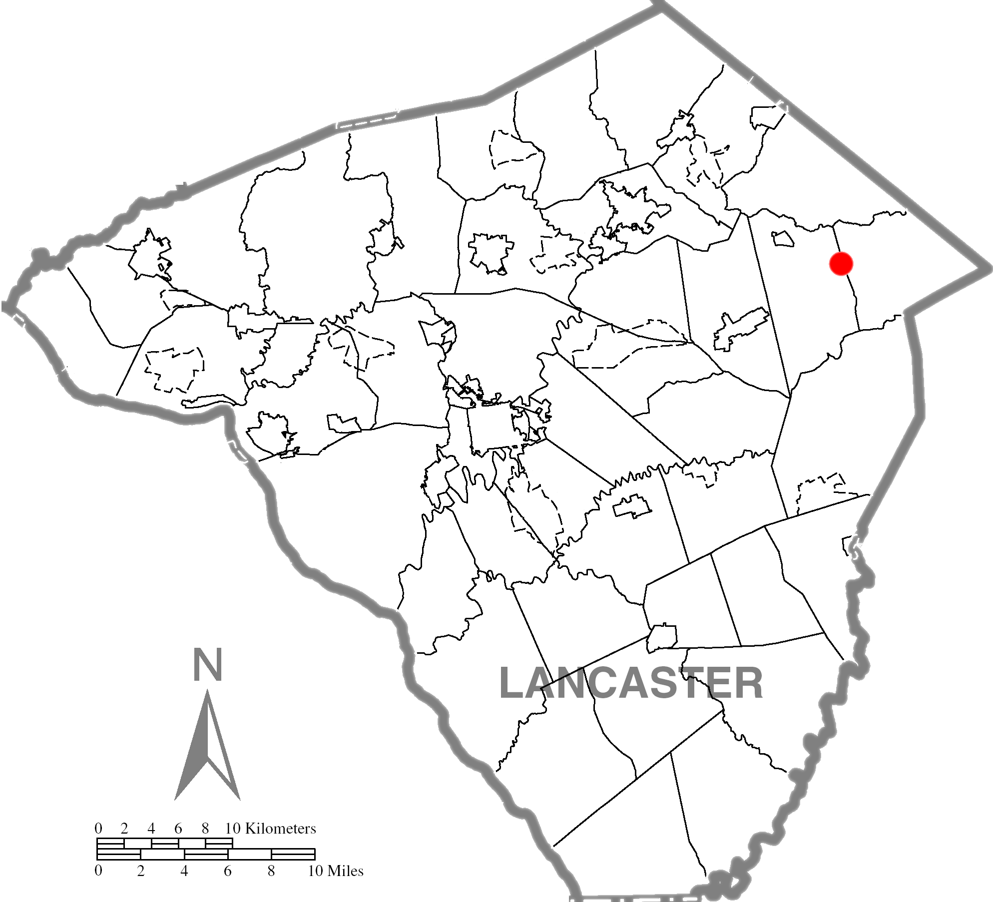 Lancaster County dot map of the Weaver's Mill Covered Bridge.